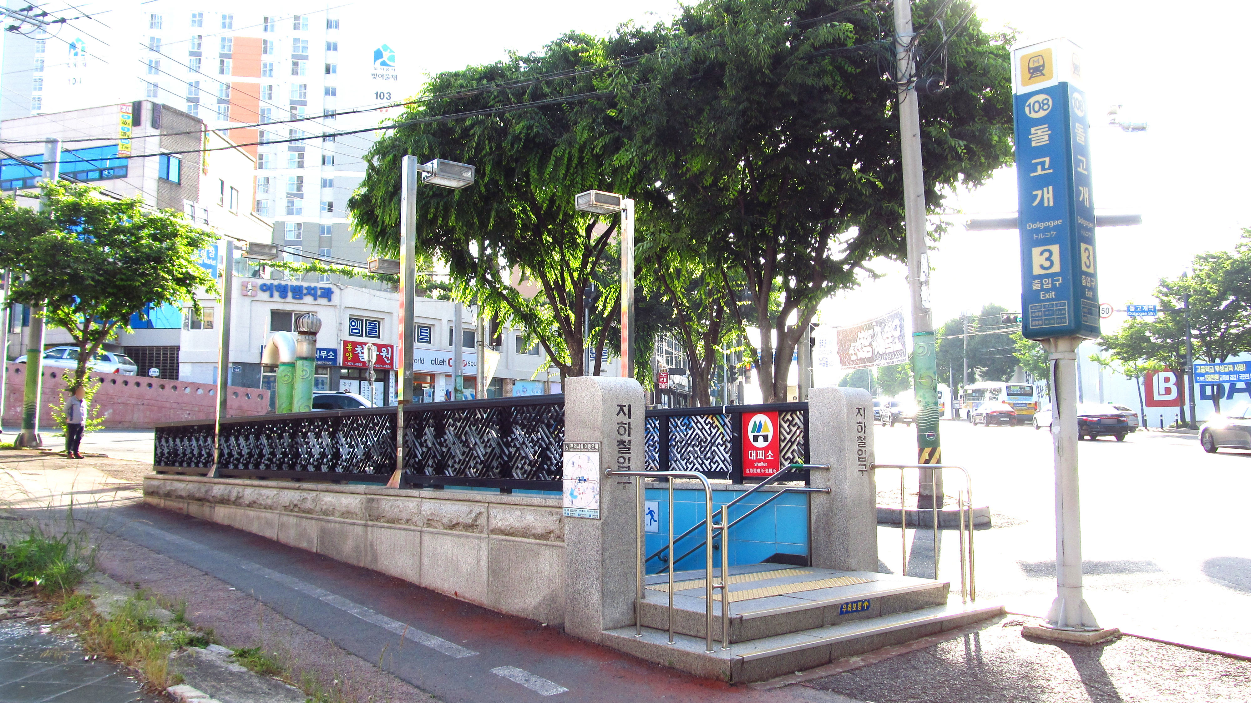 The no.3 entrance to Dolgogae Station on Gwangju Metro Line 1 in Seo-gu, Gwangju, Republic of Korea(South Korea)